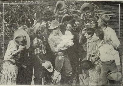 Presentation of Lydia Wilton's baby, in a scene from Life's Shop Window